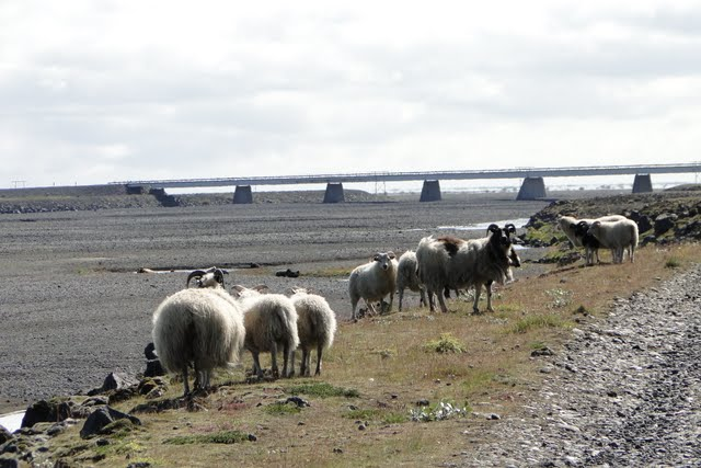 Route 1 (Iceland) 2